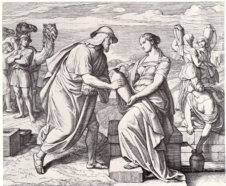 Woodcut for "Die Bibel in Bildern", 1860. Rebekah Gives Abraham's Servant Water, as in Genesis 24:11-12